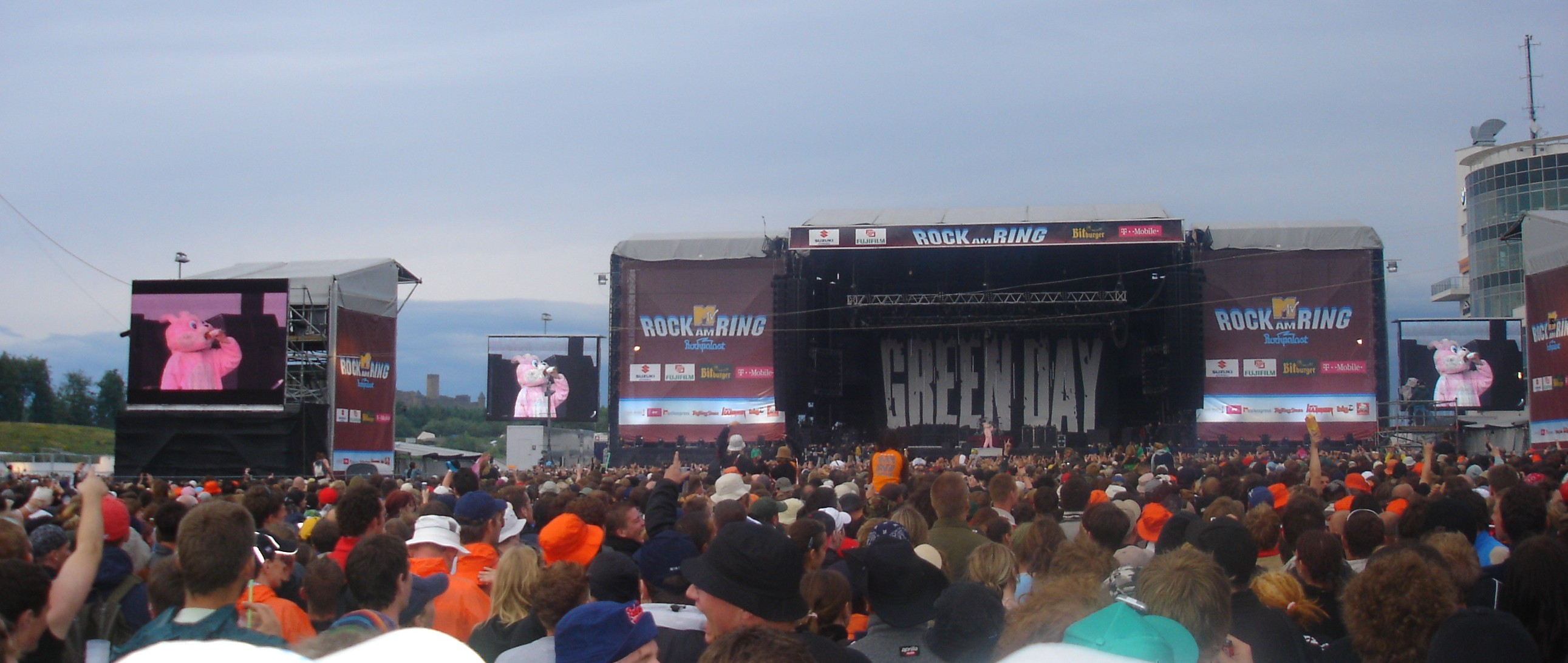 A costumed member of Green Day's stage crew drinking a beer on the Centerstage of Rock am Ring 2005 before the show